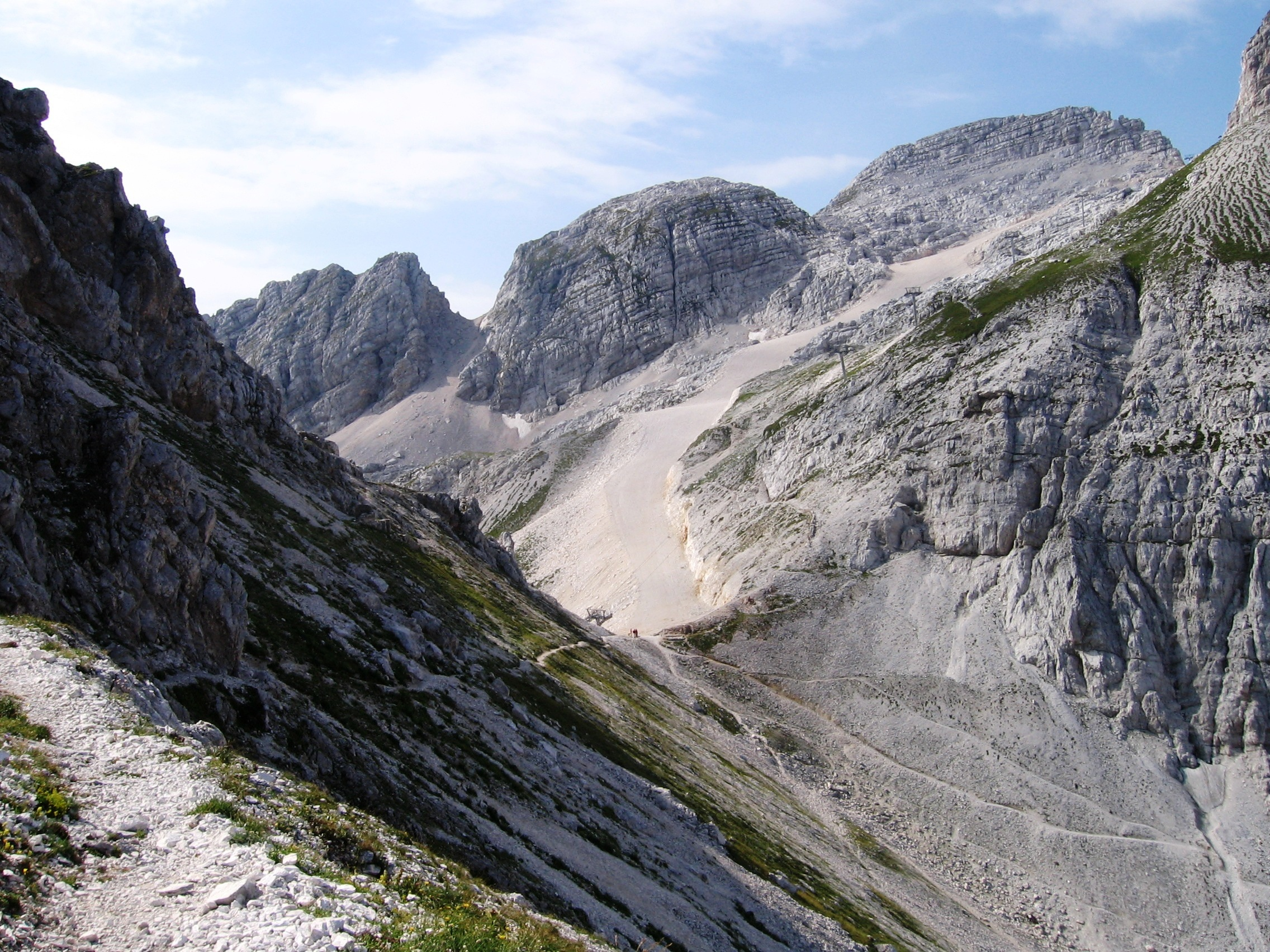 Prevala alpine pass (2,067 m) in Julian Alps, on the border between Italy and Slovenia